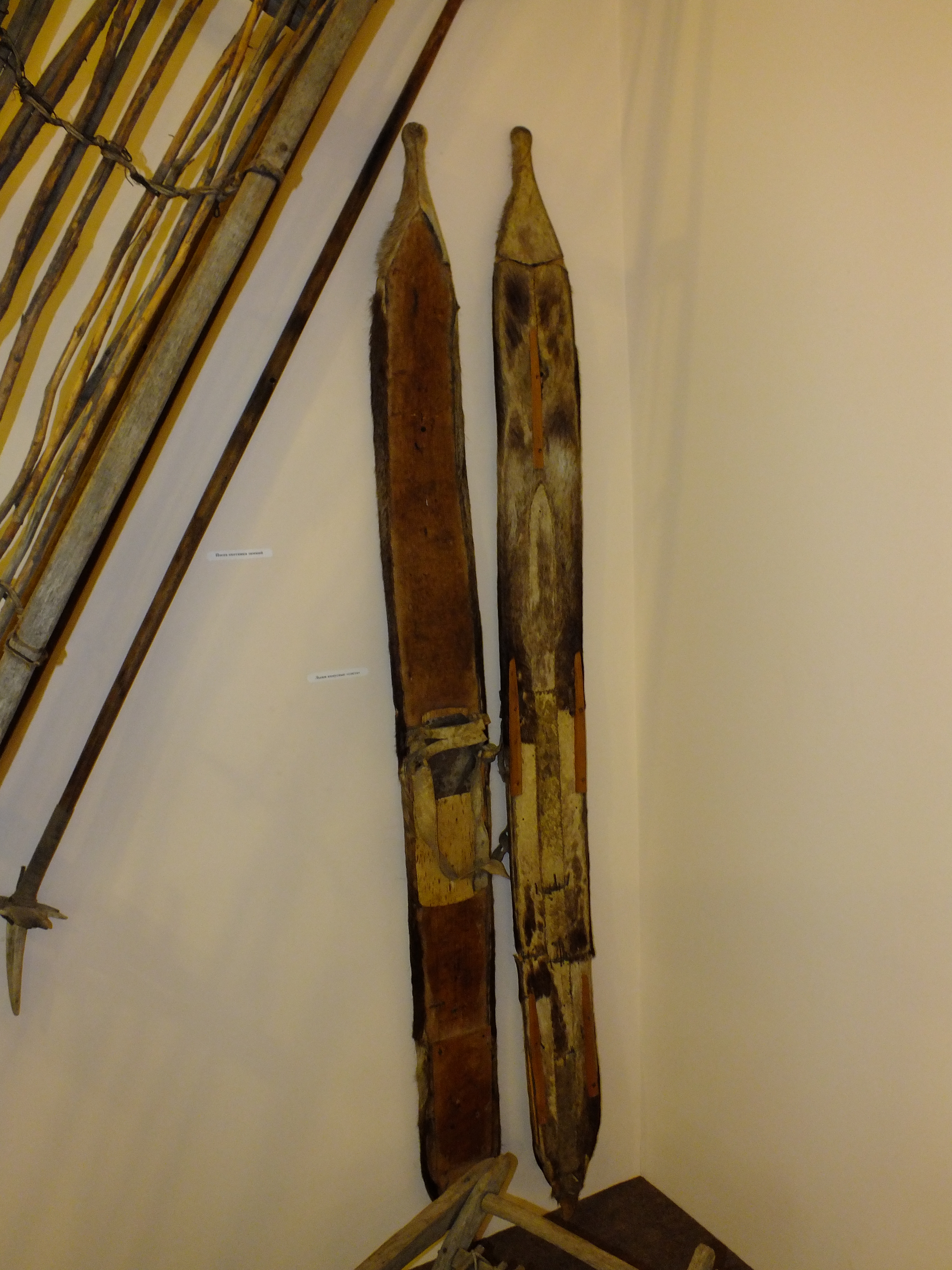 Amursk